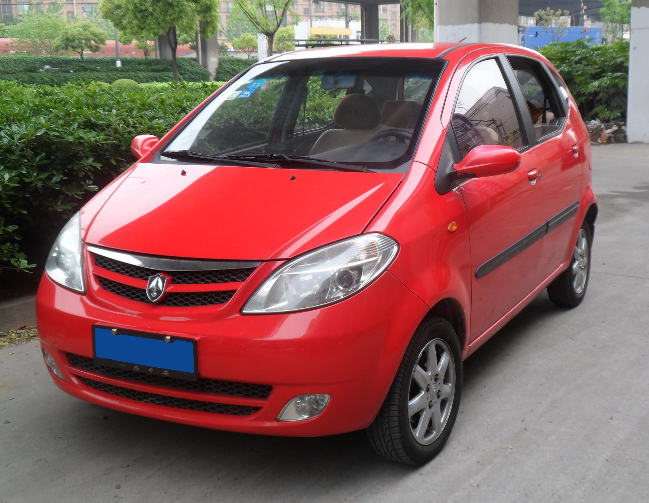 Chang'an Ben Ben photographed in Shanghai, China.